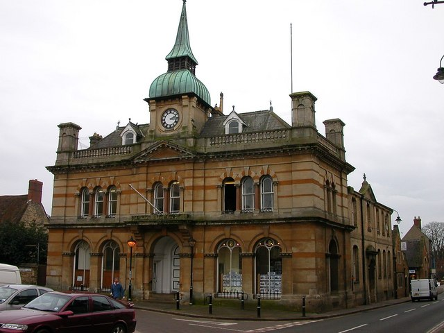 Towcester The Town Hall on Watling Street.